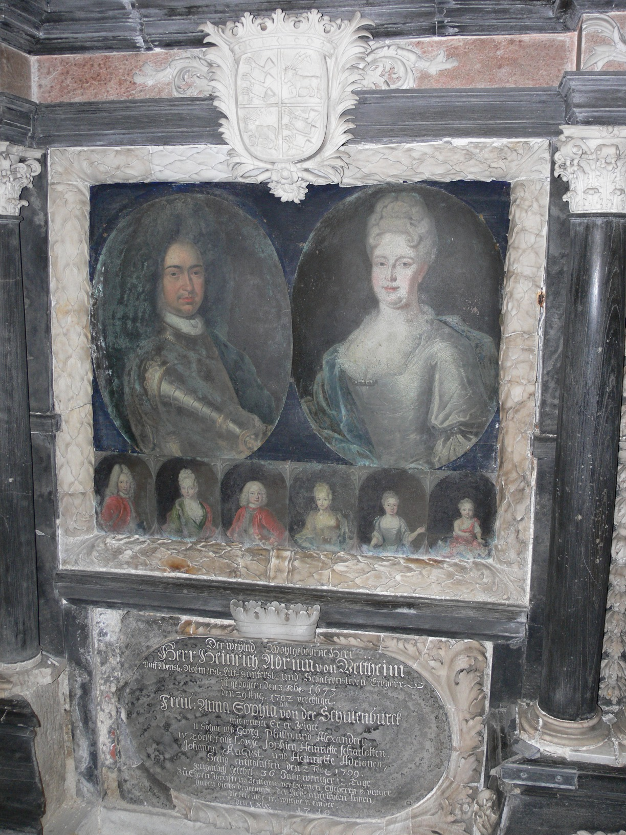 Epitaph in St. Jakobus Rottmersleben, Germany